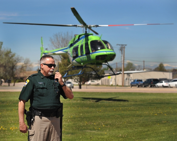 Ranger assisting with Medivac